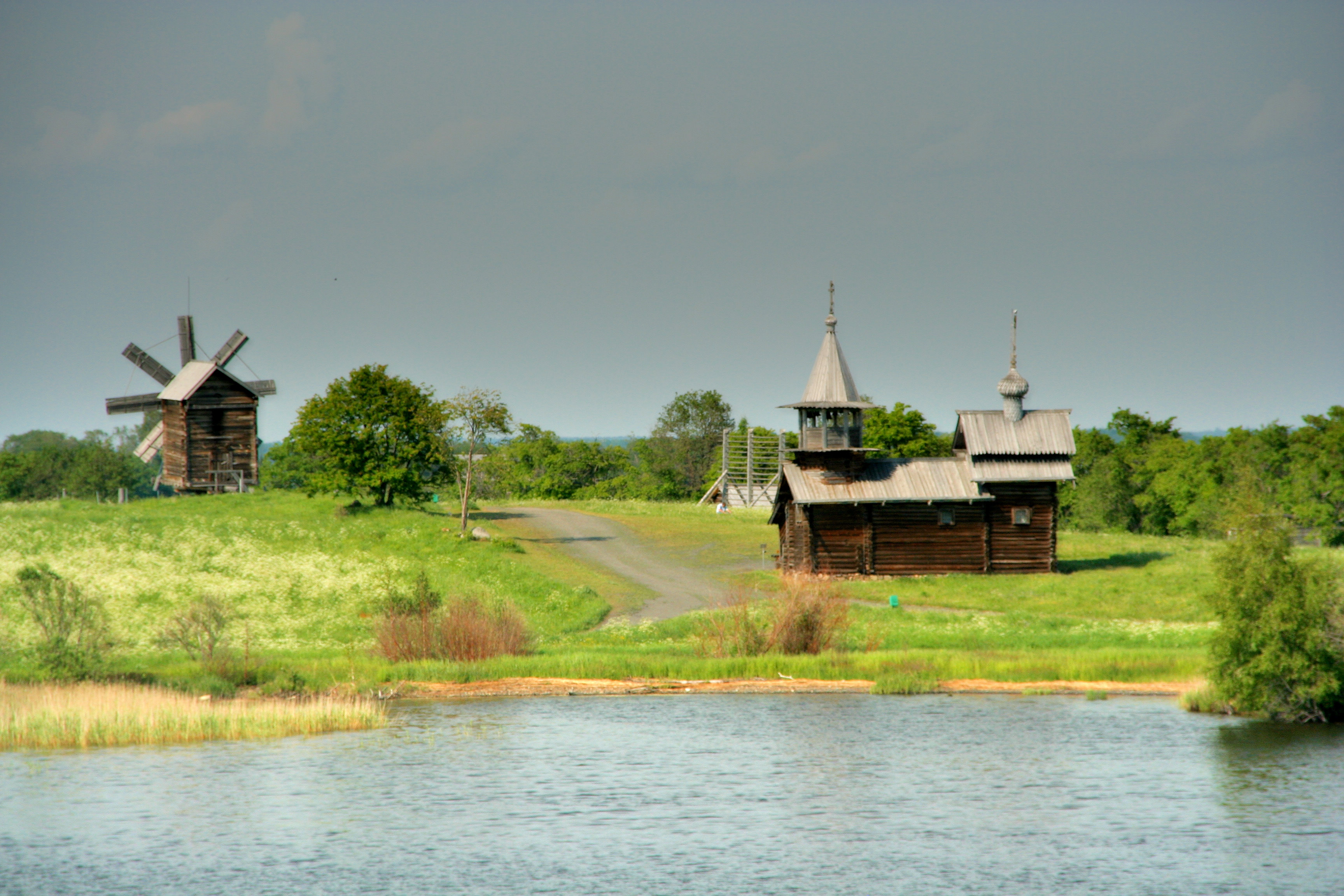 Kizhi windmill and chapel